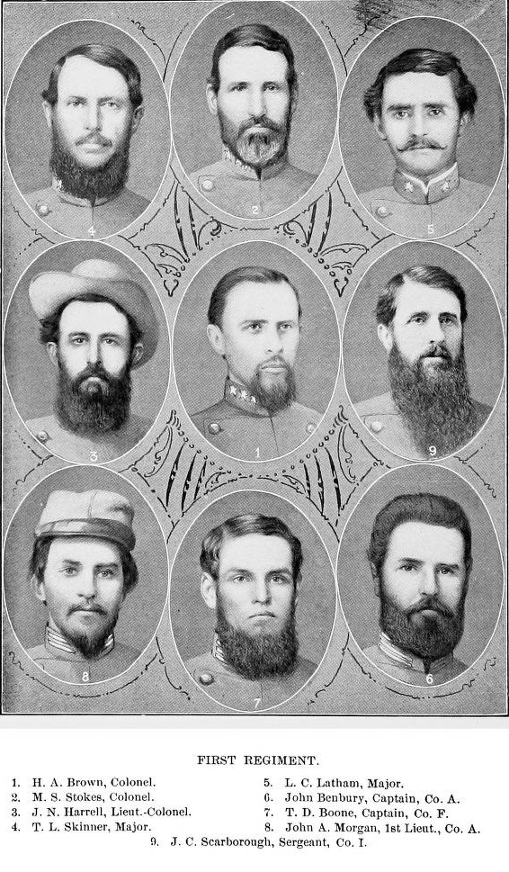 Officers of the 1st North Carolina Infantry Regiment. From Histories of the several regiments and battalions from North Carolina, in the great war 1861-'65 (1901)